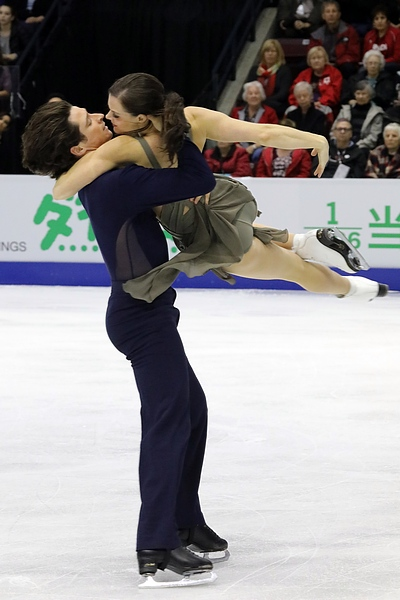 Tessa Virtue and Scott Moir at the 2016 Skate Canada International